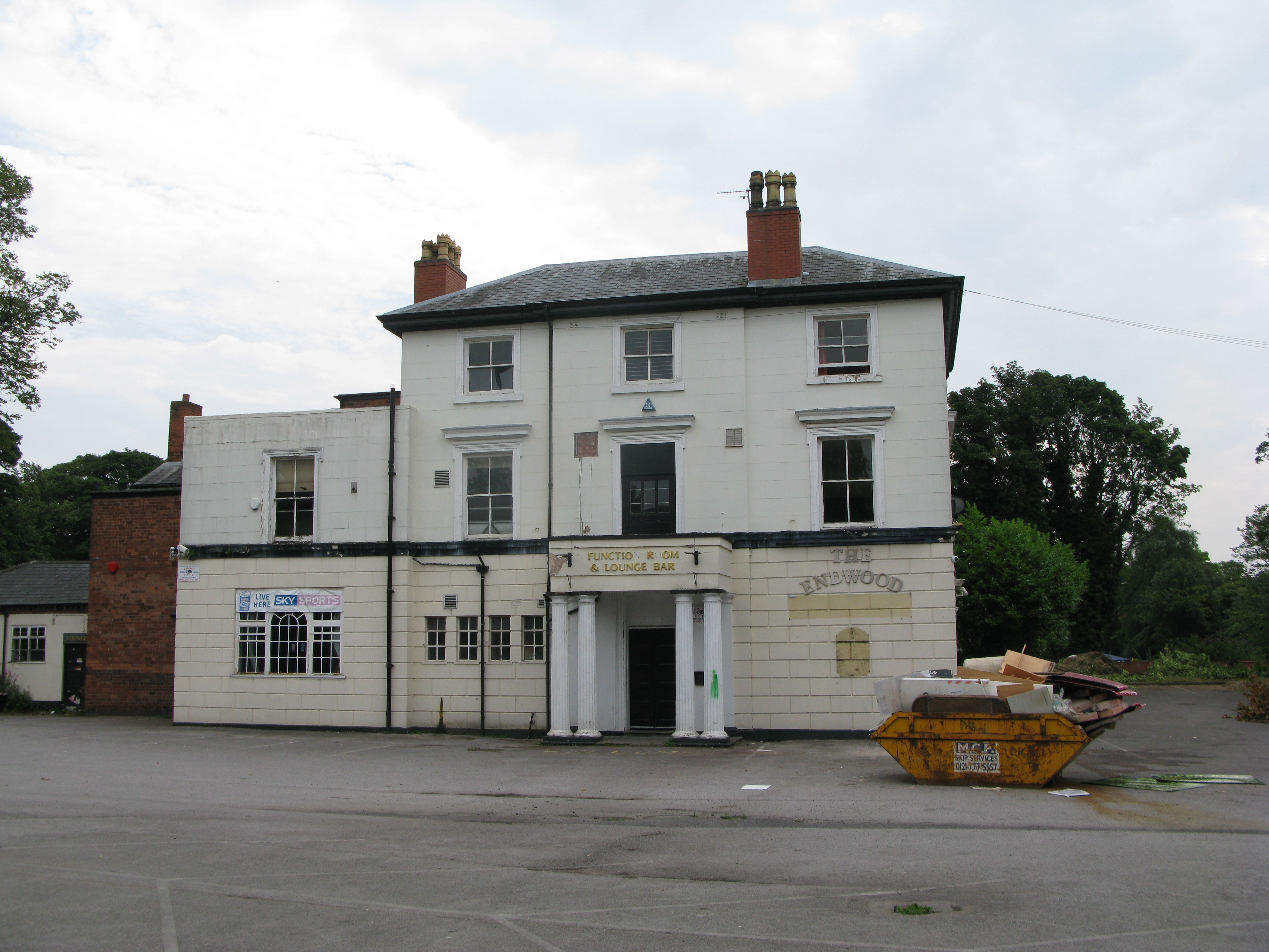 Grade II